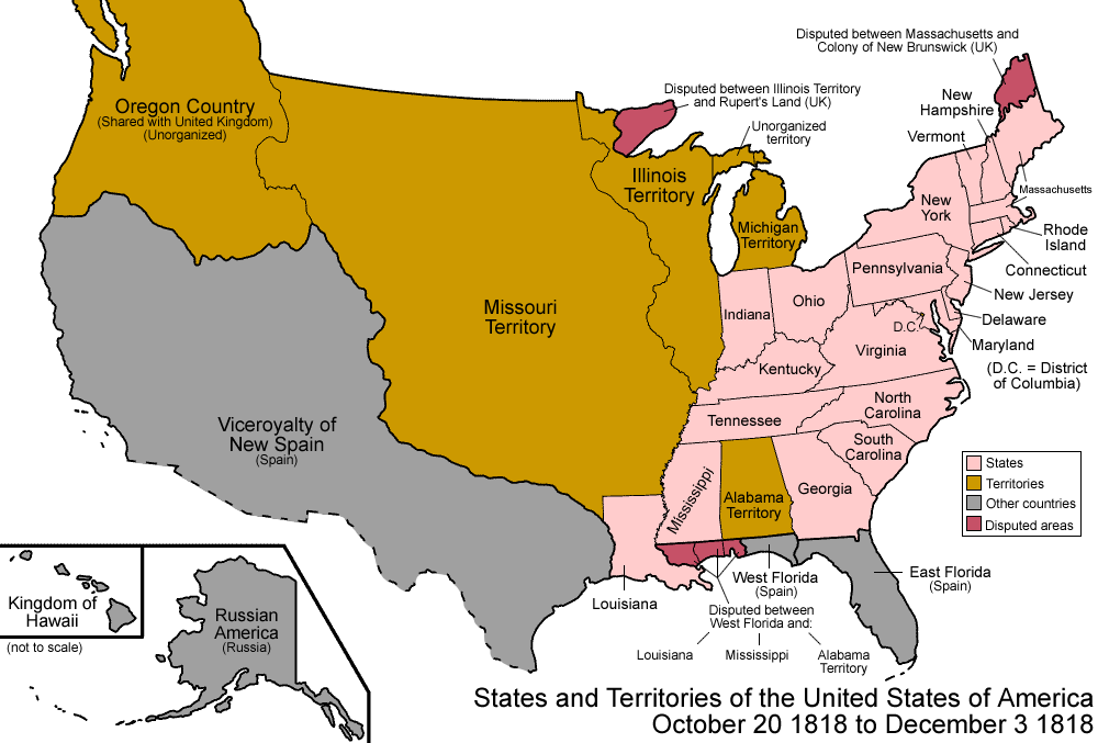 Map of the states and territories of the United States as it was from October 1818 to December 1818. On October 20 1818, the Treaty of 1818 settled the northern border with the holdings of the United Kingdom, and granted joint custody of the Oregon Country to the United Kingdom and United States. On December 3 1818, the southern portion of Illinois Territory was admitted as the state of Illinois, and the rest was joined to Michigan Territory.